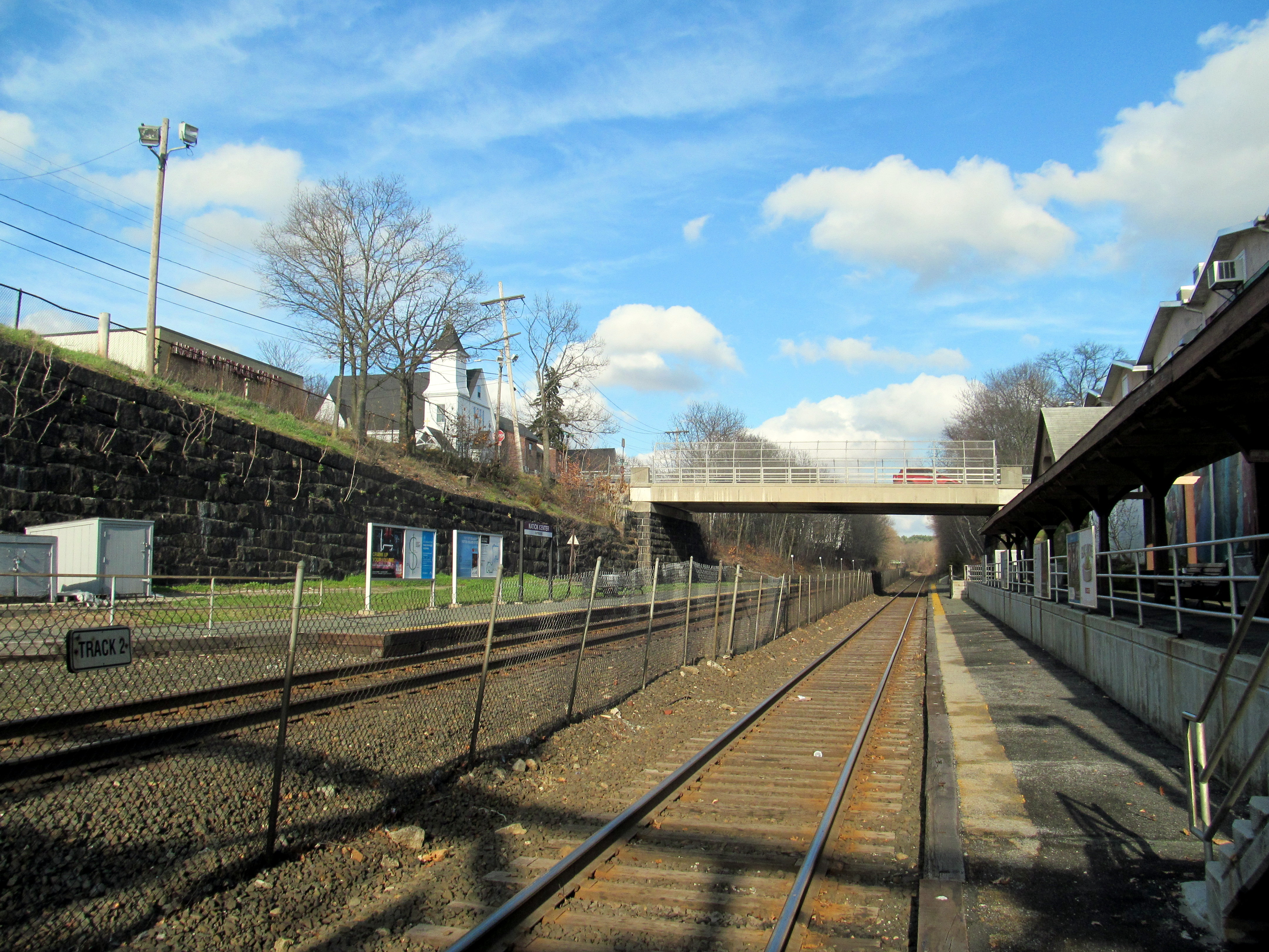 Inbound platform at Natick Center station in April 2016